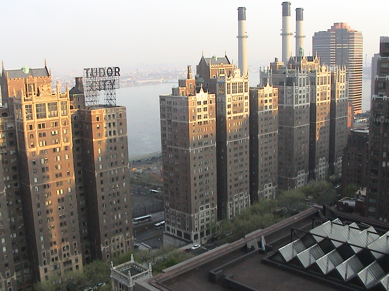 Tudor city with the East River in the background